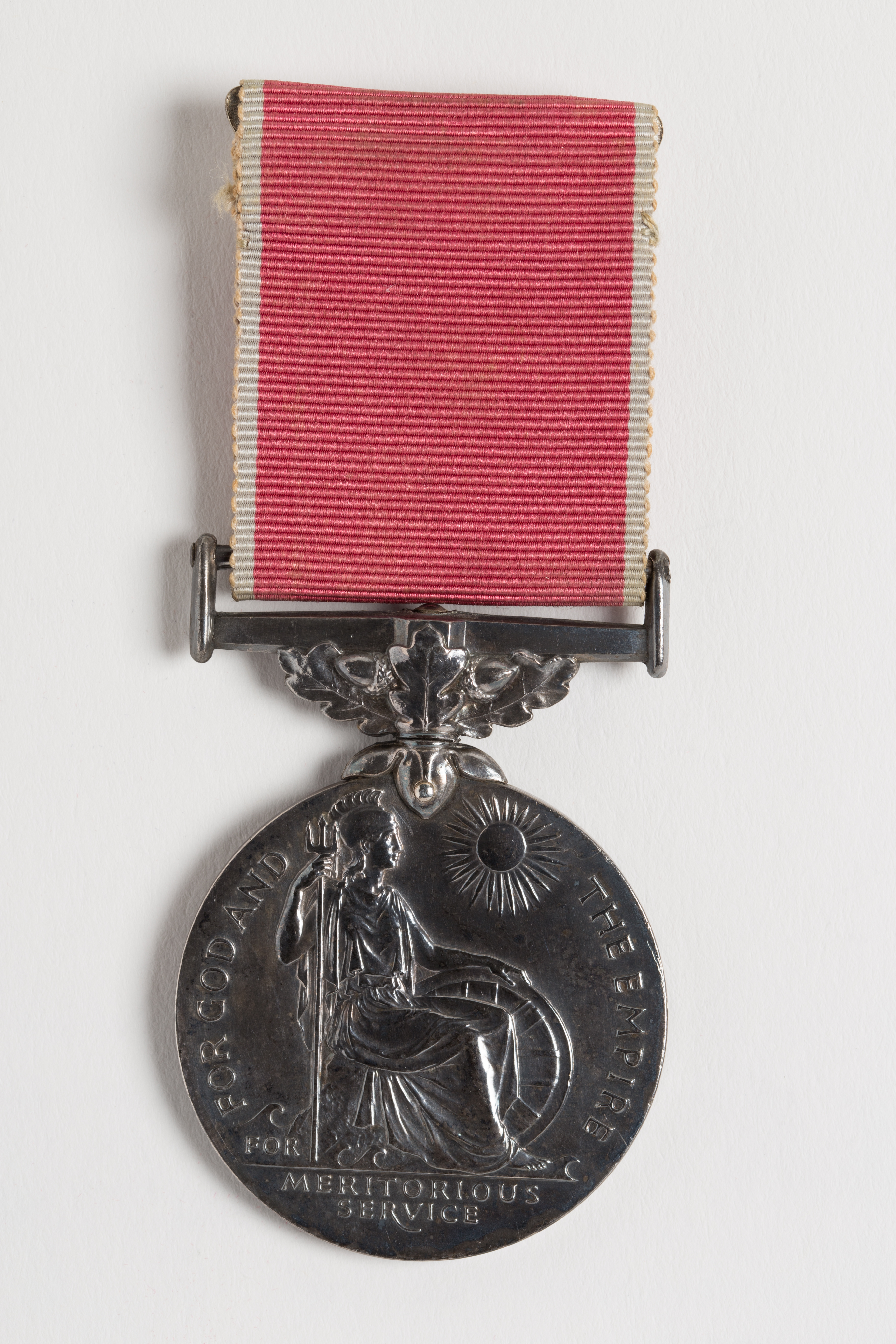 British Empire Medal (Civ) (BEM) ERII Awarded to James Gordon Mearns (RNZAF) silver circular medal; non-swivelling suspension with oak leaf and acorn decoration; with ribbon; pin fastening on reverse obverse- Britannia, seated, with sun; legend- FOR GOD AND THE EMPIRE; in exergue- FOR - MERITORIOUS - SERVICE reverse- royal cypher- EIIR; surmounted by crown; surrounded by four lions; legend below- INSTITUTED BY - KING GEORGE V markings- inscribed- JAMES GORDON MEARNS ribbon- grosgrain; 32mm; red with narrow grey stripes at edges